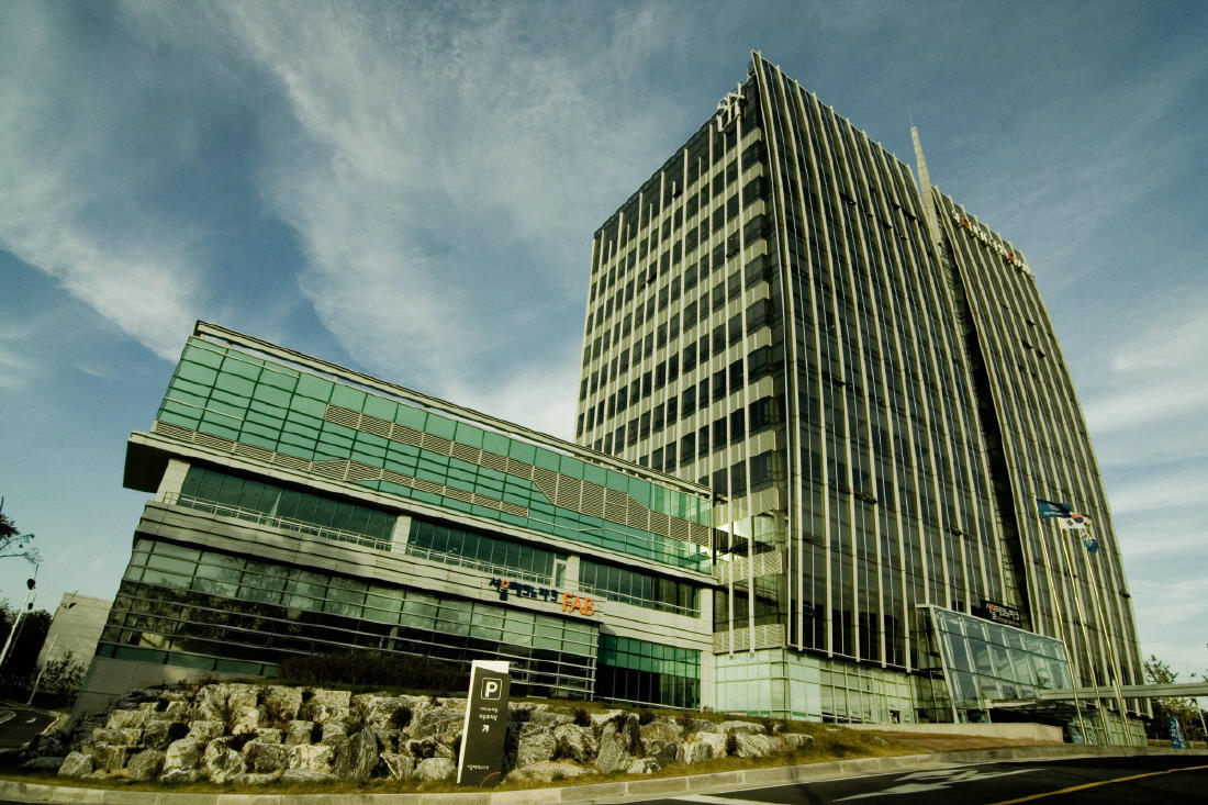 Seoultech 2009